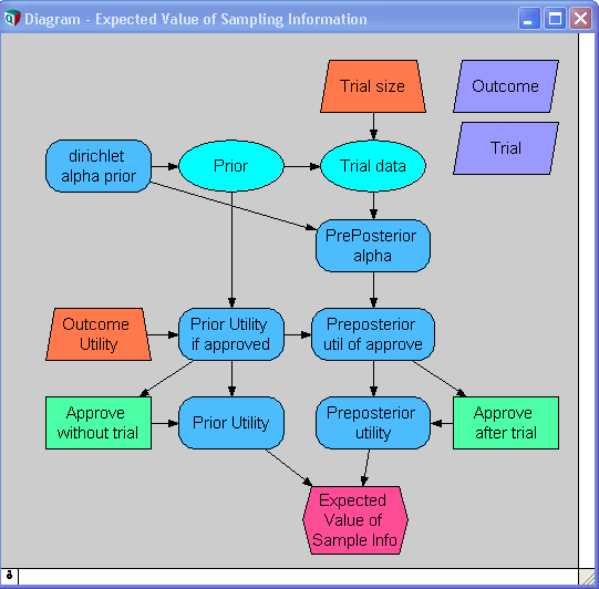 Influence diagram depiction of a computation of Expected Value of Sample Information (EVSI)